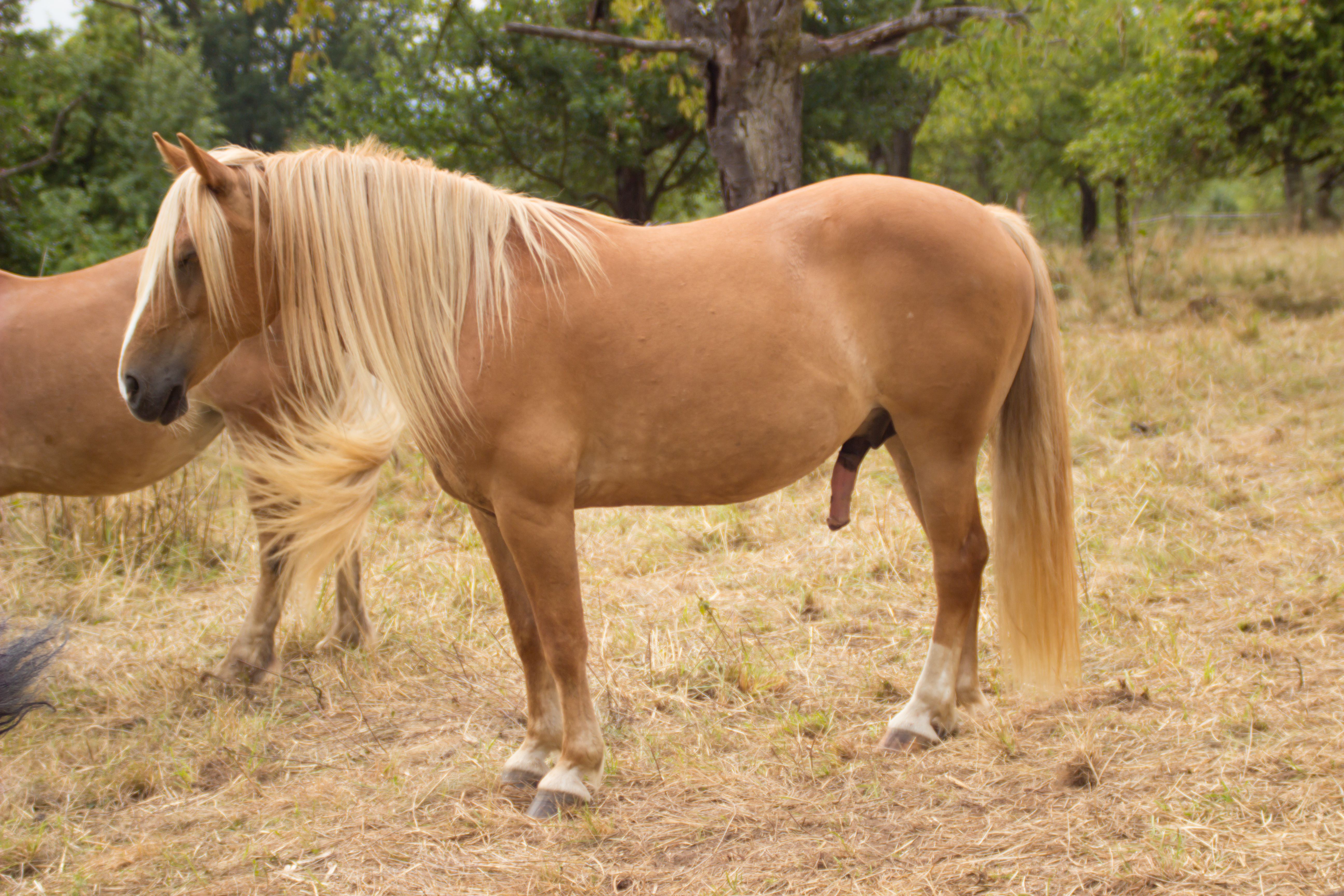 Arab-Haflinger Horse, portrayed in mating season